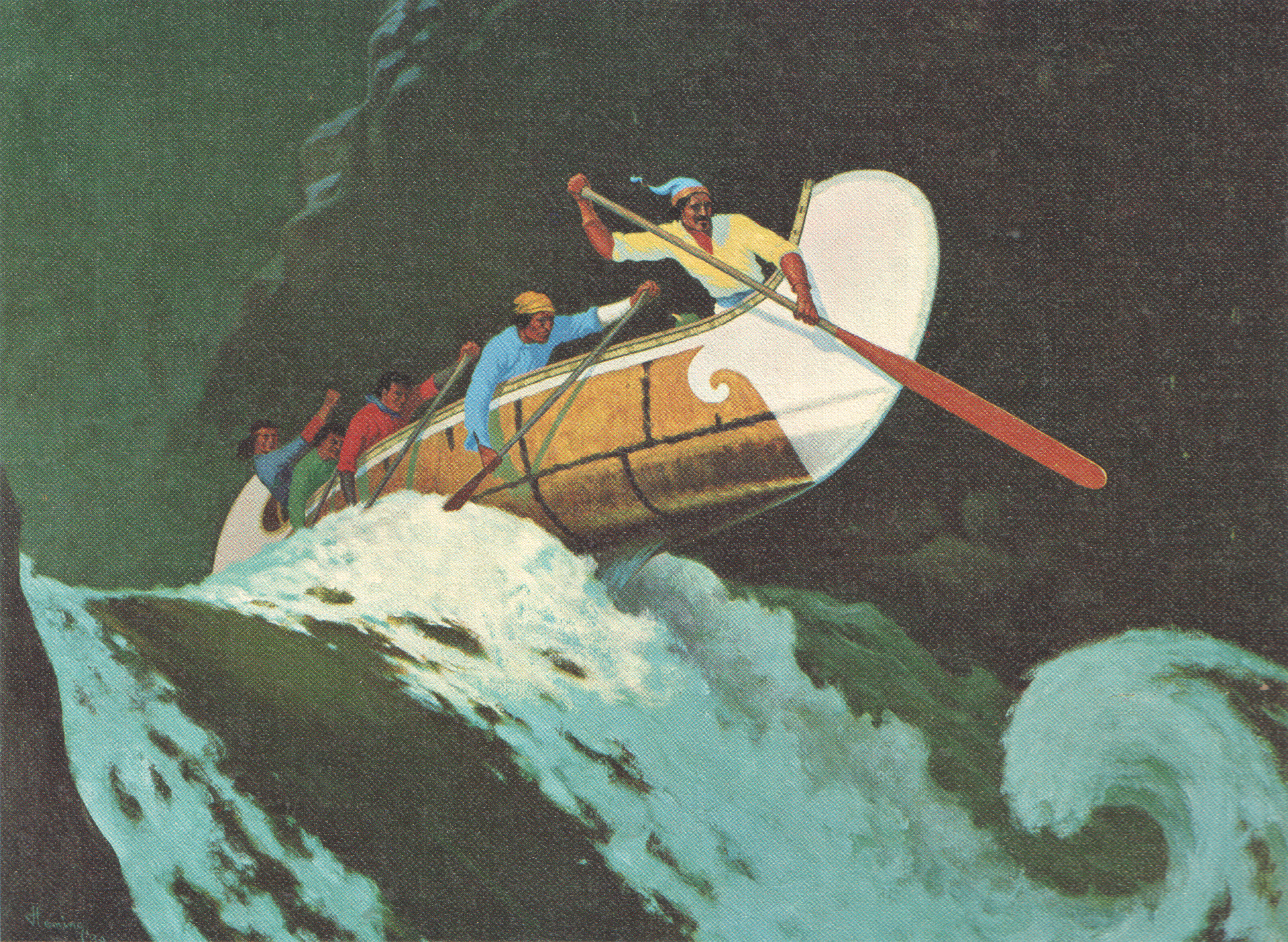 Eric W. Morse: The Fur Trade Canoe Routes - Then and Now. Cover Painting: Arthur Hemling's slightly over-dramatized colourful and exciting "Canadian Expres", depicting a North Canoe on an express mission, probably on the Columbia River. Courtesy of the owners, Mr. & Mrs. Fenner F. Dalley, Ancaster, Ont. First printing 1969, this second printing 1971. Published by the National and Historic Parks Branch under authority of Hon. Jean Chrétien, P. C., M. P.; Minister of Indian Affairs and Northern Development.